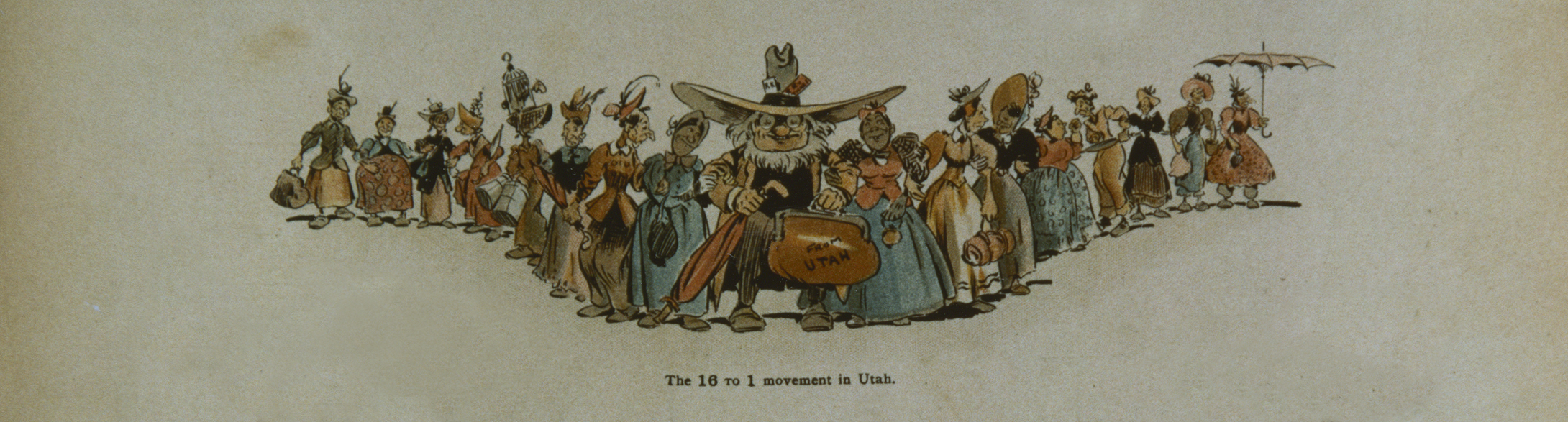 Political cartoon from 1896 showing a Utah man with 16 wives to exaggerate the kind of people who supported the Free Silver movement. From the Gary L. Bunker papers, MSS 7655 B6 F at L. Tom Perry Special Collections.